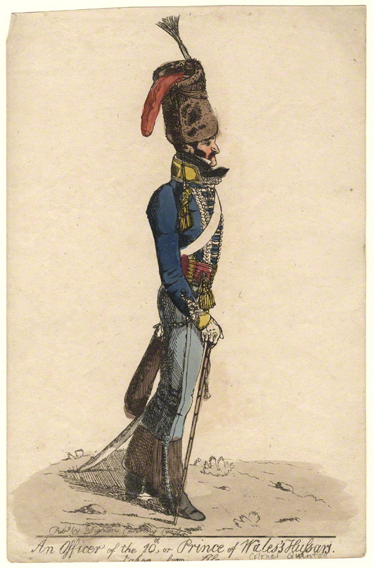 An officer of the 10th, or Prince of Wales's Hussars, taken from life, hand-coloured etching of George Augustus Quentin.